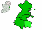 County Dublin map with inset location on island of Ireland. Also administrative divisions, with Dun Laoghaire/Rathdown highlighted.